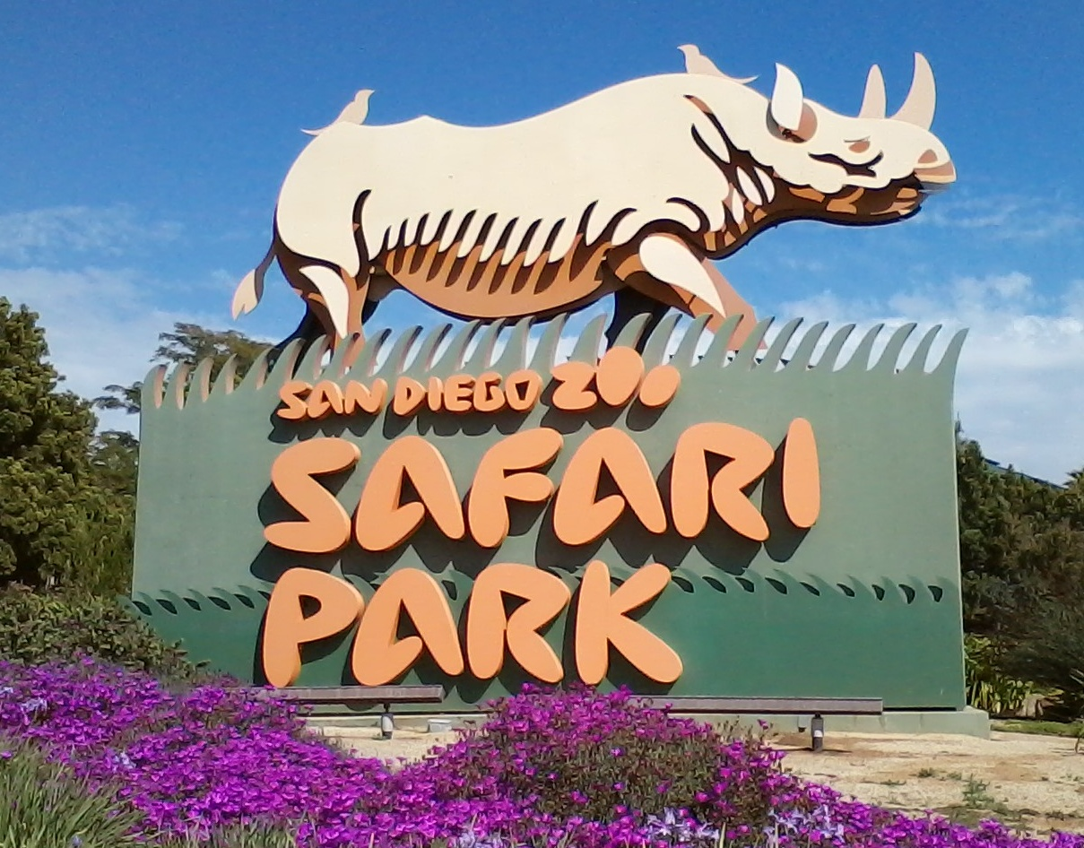 Roadside entrance sign for San Diego Zoo Safari Park.